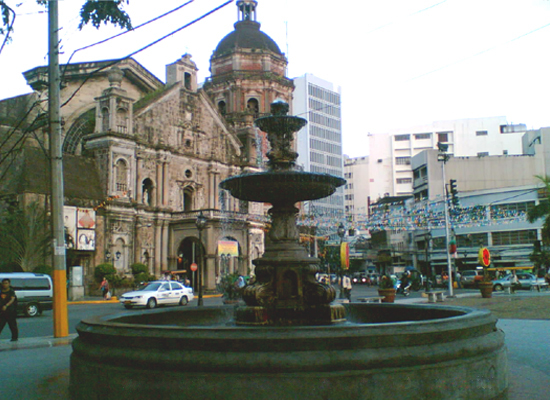 Plaza Lorenzo Ruiz in Binondo, Manila, with the facade of the Minor Basilica of Saint Lorenzo Ruiz.